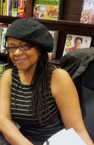 Donna Britt at 2012 book signing event in Washington, D.C.